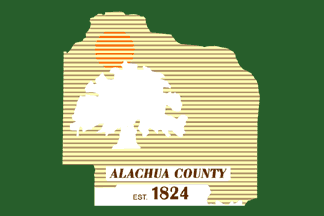 The official flag of Alachua County, Florida.